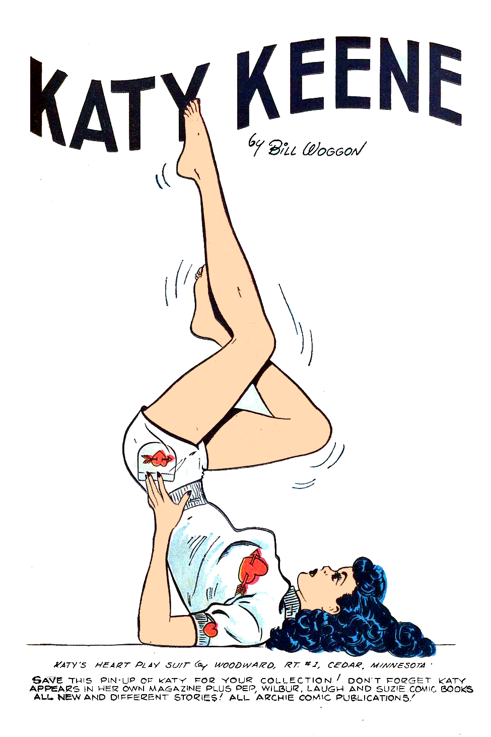 Cheesecake pose from Katy Keene number 4 (Archie Comics, 1951). This picture is in the public domain.